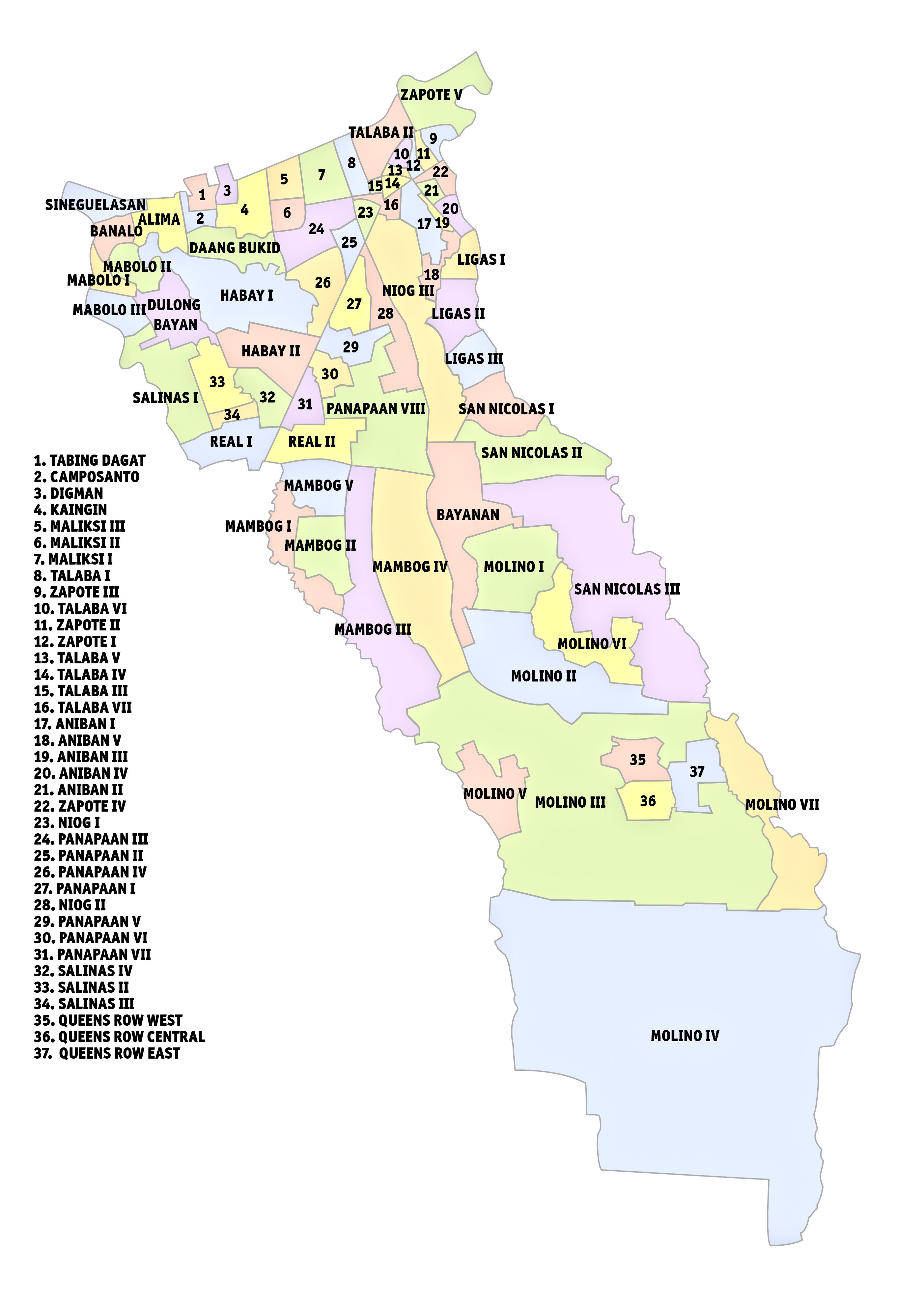 A map of Bacoor City consists of 73 barangay.